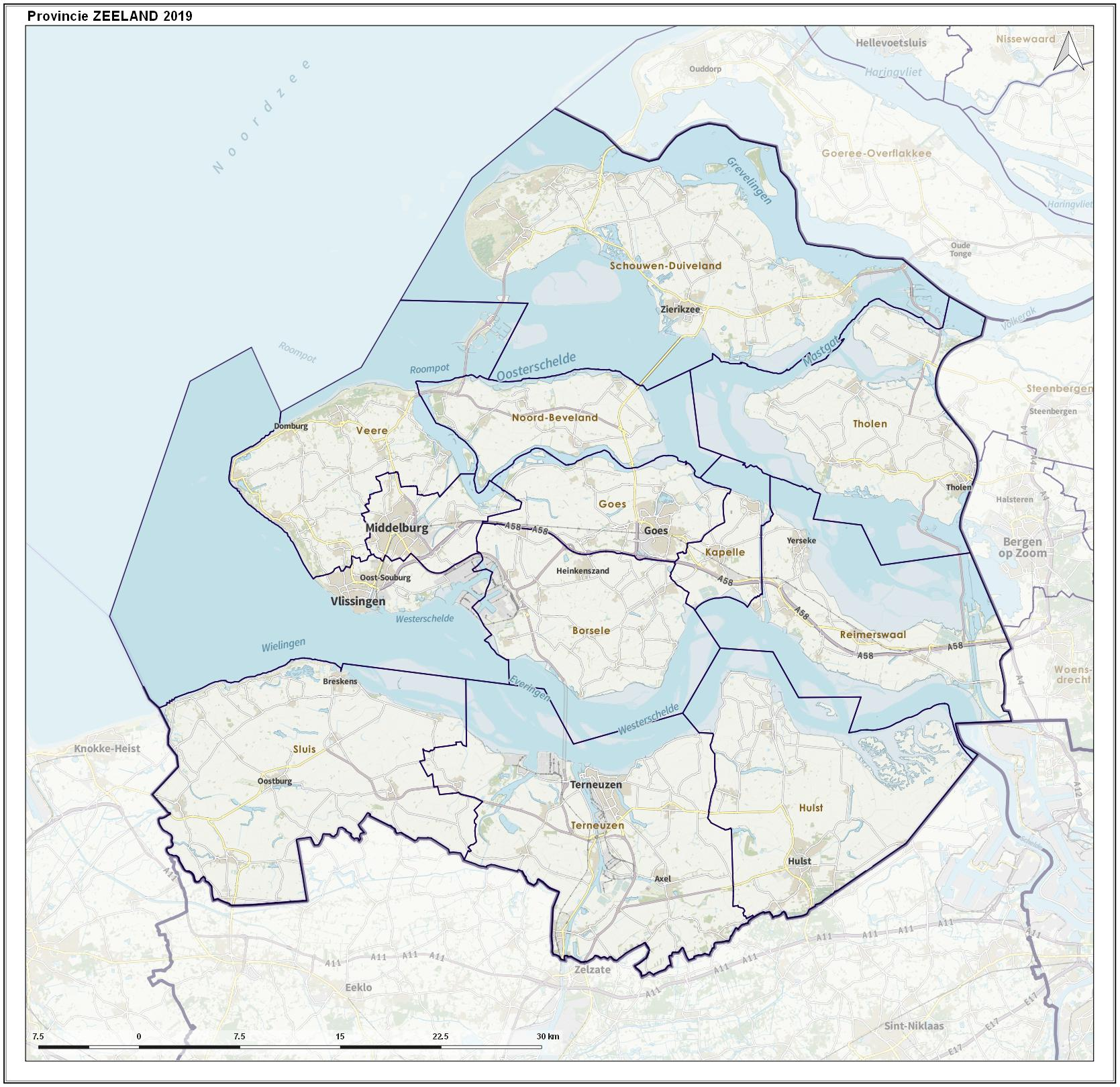 Overview map of the province, including municipal borders, largest places and major infrastructure.